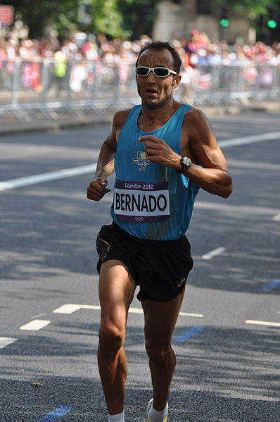 The men's marathon of the 2012 Summer Olympics in London, UK took place on an Olympic marathon street course on Sunday 12th August 2012 at 11:00. This was the final day of the 30th Olympic Games. The London 2012 marathon course is the standard Olympic distance of 26 miles 385 yards and consists of one short lap of approx 2.2 miles followed by three longer laps of 8 miles. The course began on The Mall and travelled past several of the most famous London landmarks. The start/finish line was near the Victoria Memorial. These photographs were taken at the Victoria Embankment. This featured several times on the looped course. The approximate location from the photographs is shown in the Google StreetView Link below.